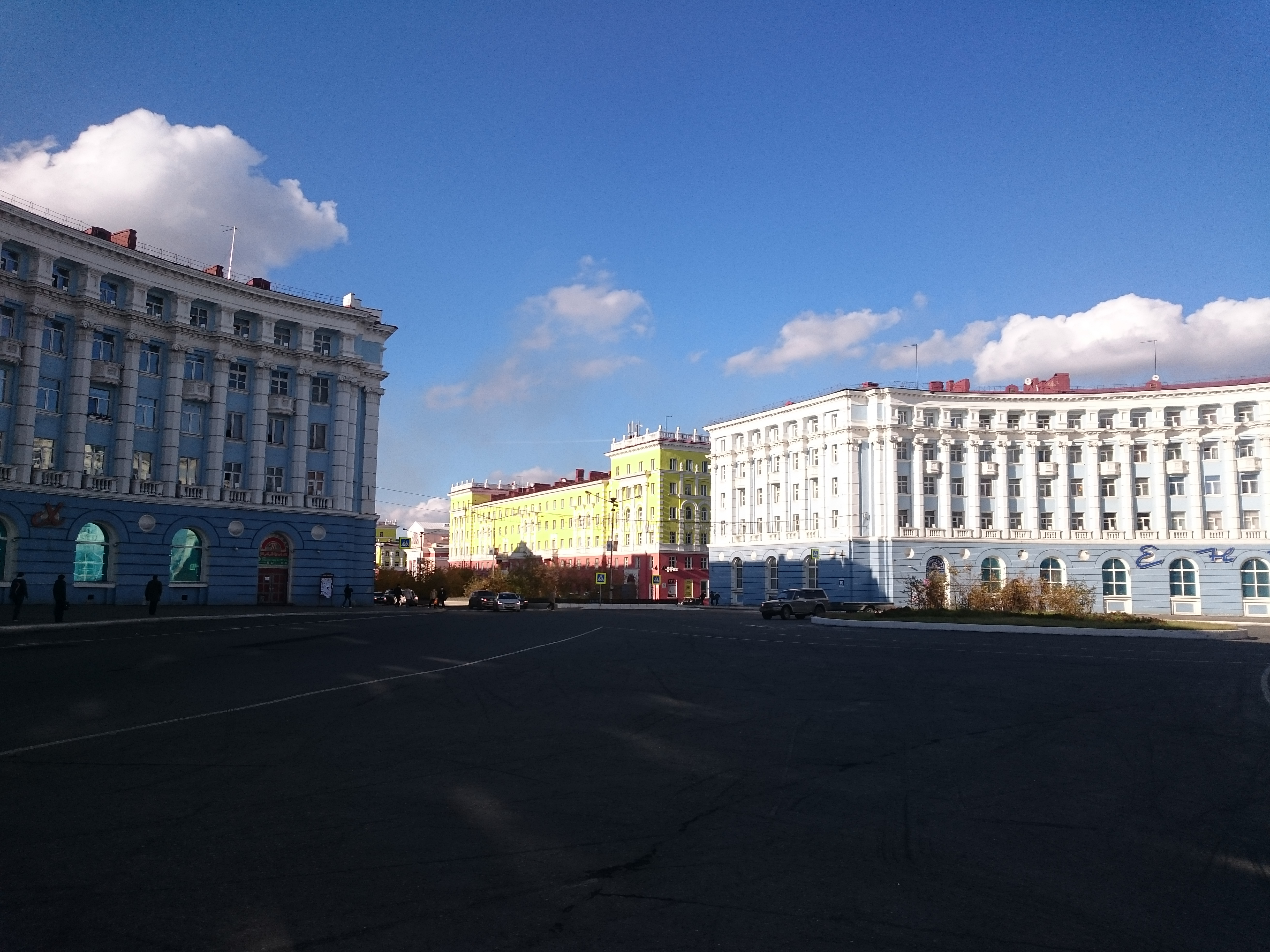 The complex of constructions of the center of the Norilsk (Krasnoyarsk region) — Gvardeyskaya Square